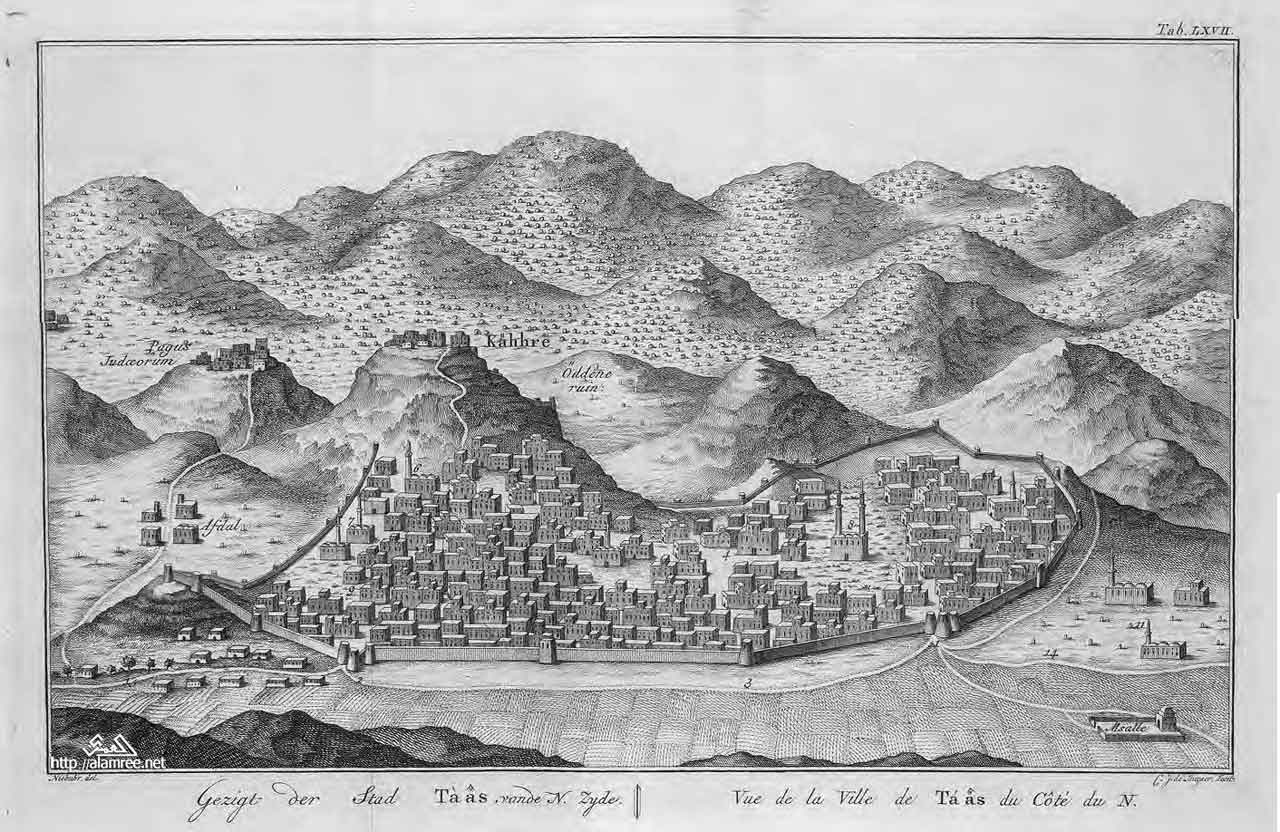 "Taiz city,Yemen", Carsten Niebuhr.